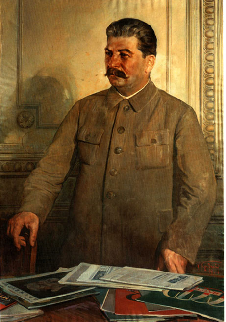 Portrait of Joseph Stalin, by Isaak Brodsky (1883–1939)